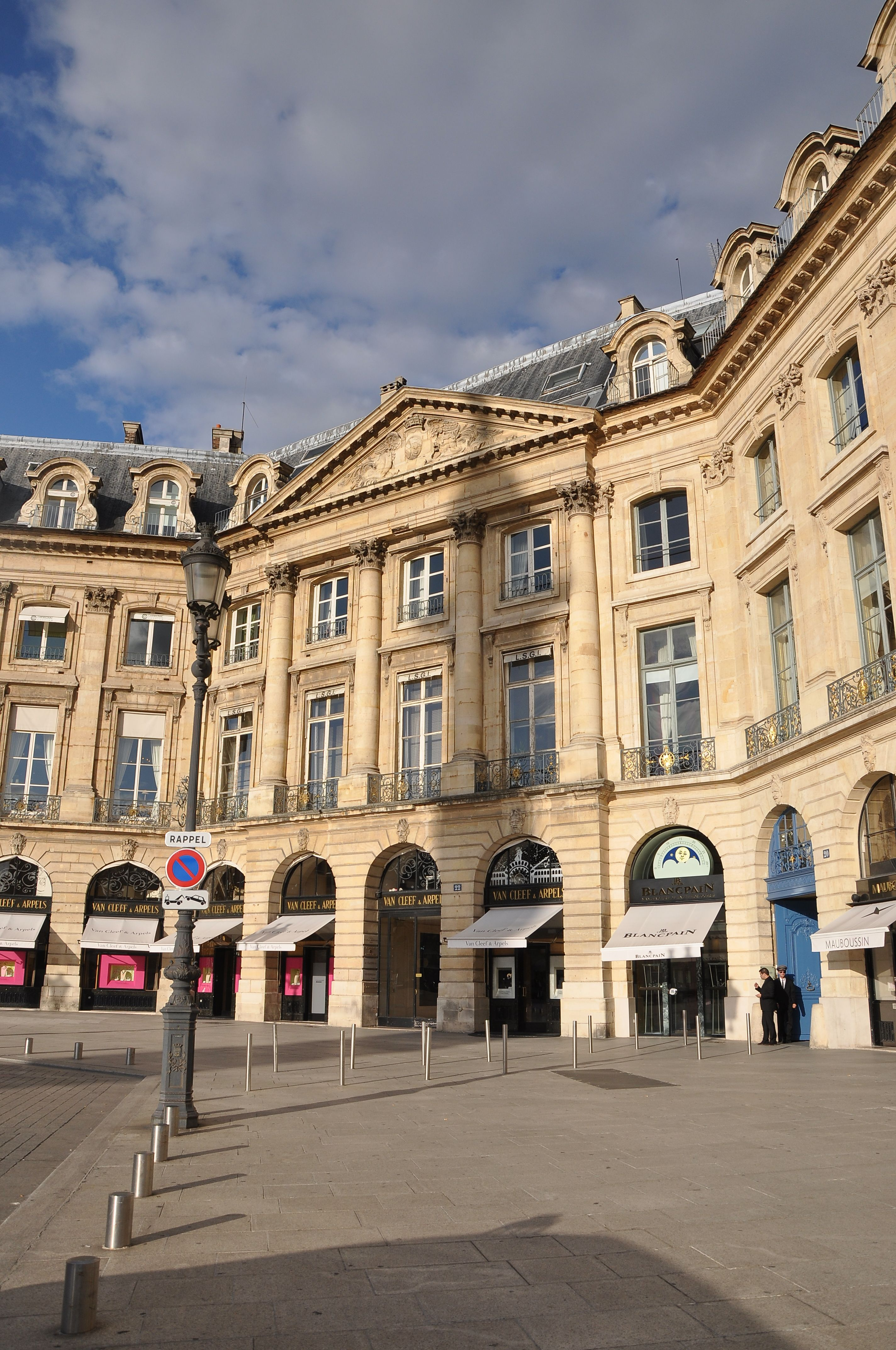 Hôtel de Ségur at 22 place Vendôme, in the 1st district of Paris France